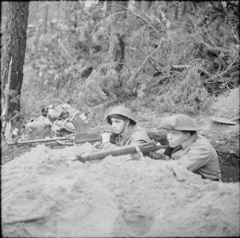 The British Army in North-west Europe 1944-45 Fusiliers F G Johnstone and J Kemp of the 6th Royal Welsh Fusiliers man a trench in the Reichswald, 8 February 1945.